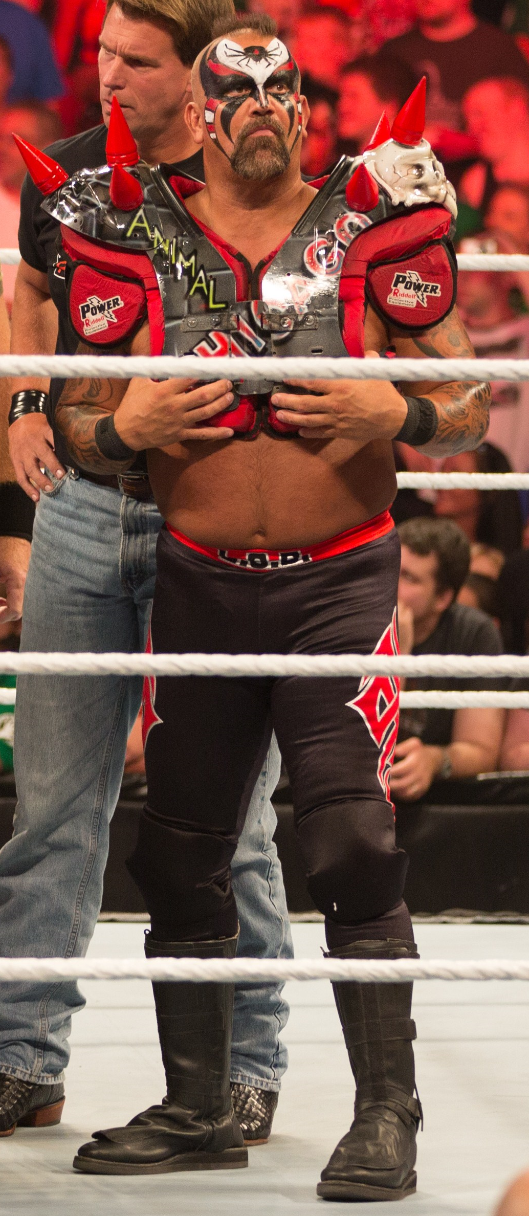 An image of professional wrestler Road Warrior Animal. Other information This is a cropped version of a free use image from Wikimedia Commons.